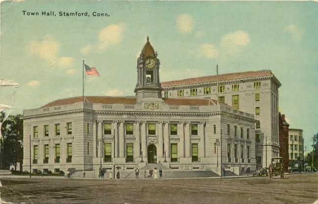 Postcard picture of Town Hall in the Downtown Stamford section of Stamford; store Web page states: "Stamford CT c1914 Postcard"; the Beaux Arts building looked much the same as of July 2008, the tall building behind it is gone, but the two buildings to the right remain